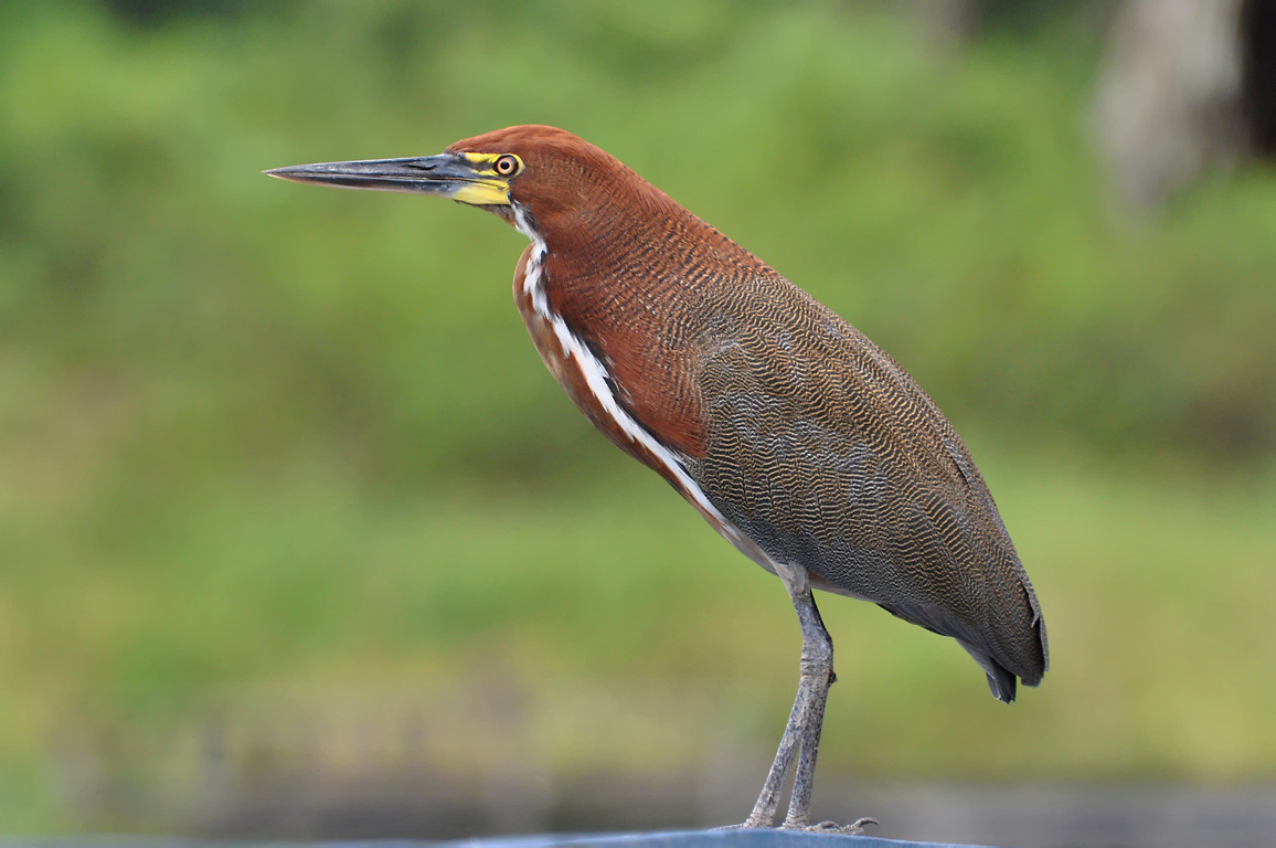 A Rufescent Tiger Heron in Uarini, Amazonas, Brazil.